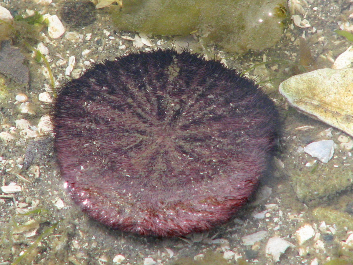 Eccentric Sand Dollar (Dendraster excentricus), Ganges Harbour, Salt Spring Island, British Columbia